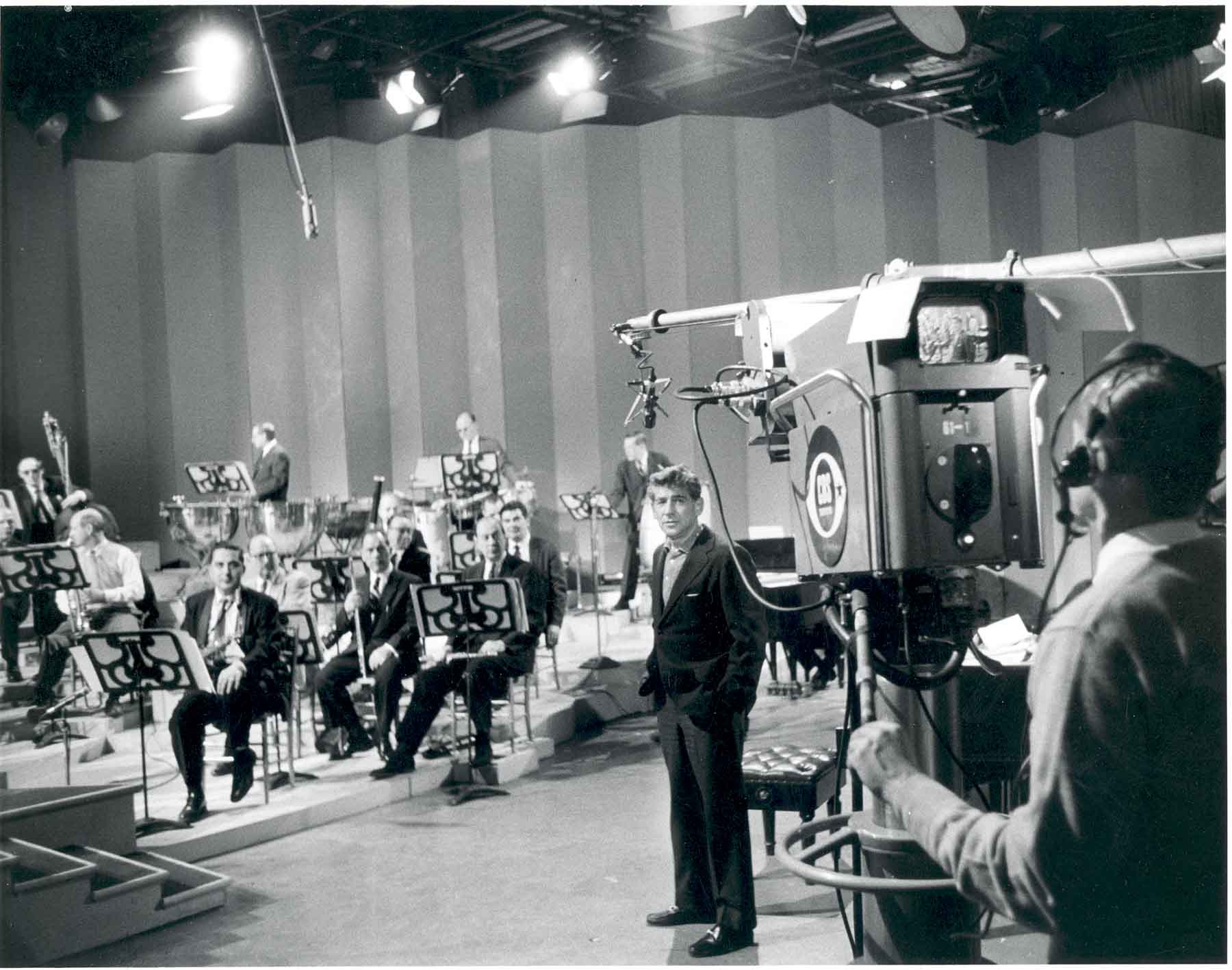 Description - Leonard Bernstein with television camera. Leonard Bernstein with members of the Philharmonic rehearsing for a television broadcast